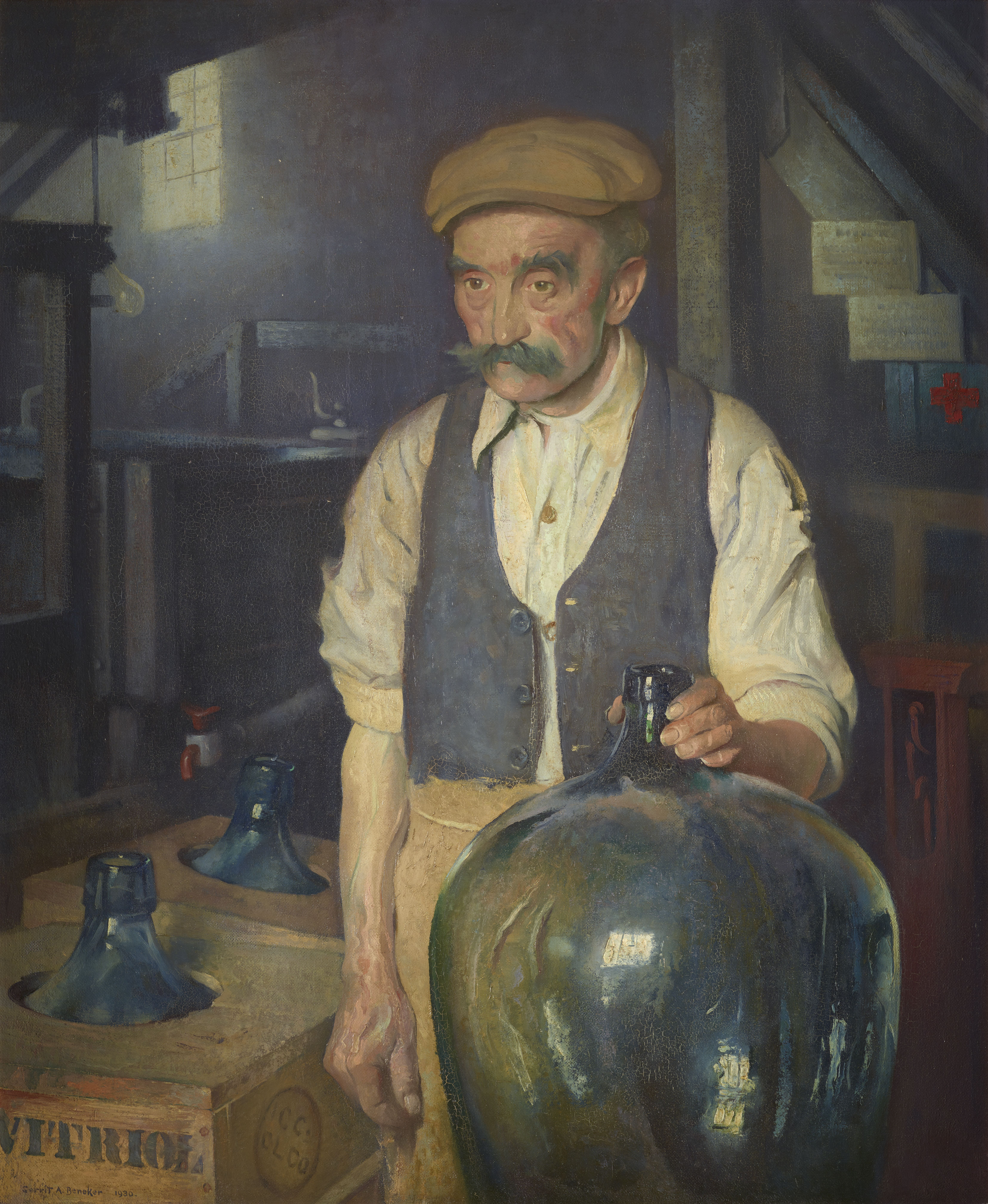 Standing portrait of George Trapp, a blue-collar worker, looking left; dressed in work clothes including a cap, white shirt, vest, and smock; holding the neck of a green glass carboy in left hand; to left, crates used to transport carboys, labeled VITRIOL; factory interior and tools of the trade visible in background. Gilded frame with label: "GEORGE TRAPP / OIL OF VITRIOL DEPT. / EMPLOYED 1881-1932". Oil of vitriol is a historic name for sulfuric acid. Sulfuric acid is used in industrial contexts to manufacture chemicals, fertilizers, and explosives. Artist Gerrit A. Beneker (1882-1934) was an American painter and illustrator, particularly known for his paintings of American industry in the 1920s. Otto Haas commissioned Beneker to paint a series of pictures showing Bridesburg employees.